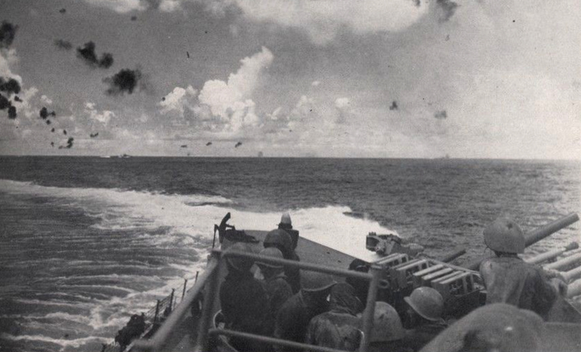 The U.S. Navy light cruiser USS San Juan (CL-54) makes a tight turn during the Battle of the Santa Cruz Islands on 26 October 1942. The aircraft carrier USS Enterprise (CV-6) is visible in the distance, left.